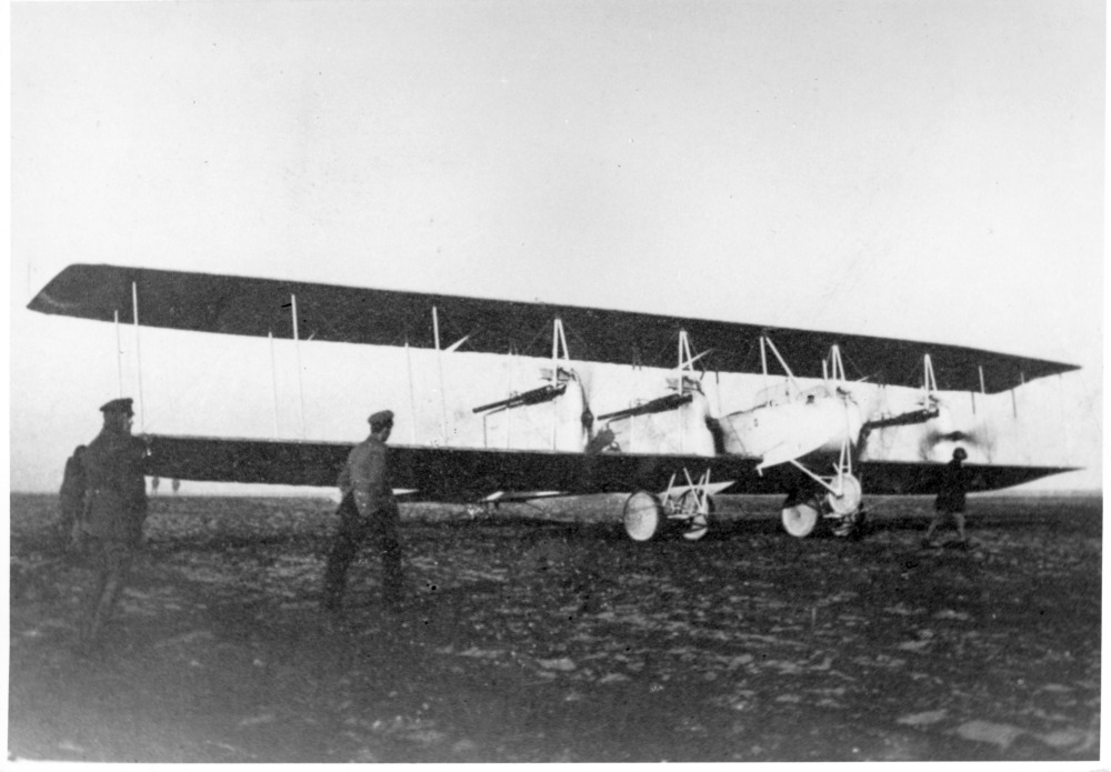 Albatros G.I